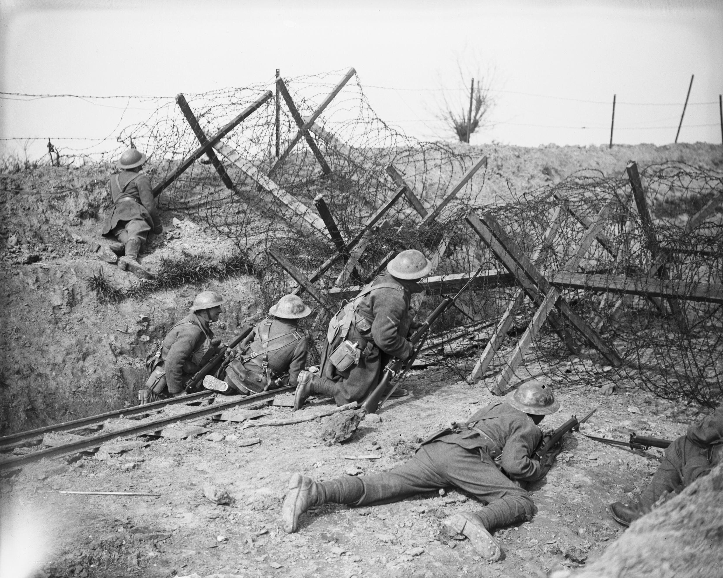 The German Spring Offensive, March-july 1918 The Battle of the Lys. A picquet of the 10th Battalion, The Queen's (Royal West Surrey Regiment) of the 41st Division behind a wire "block" on a road at St. Jean, 29 April 1918.